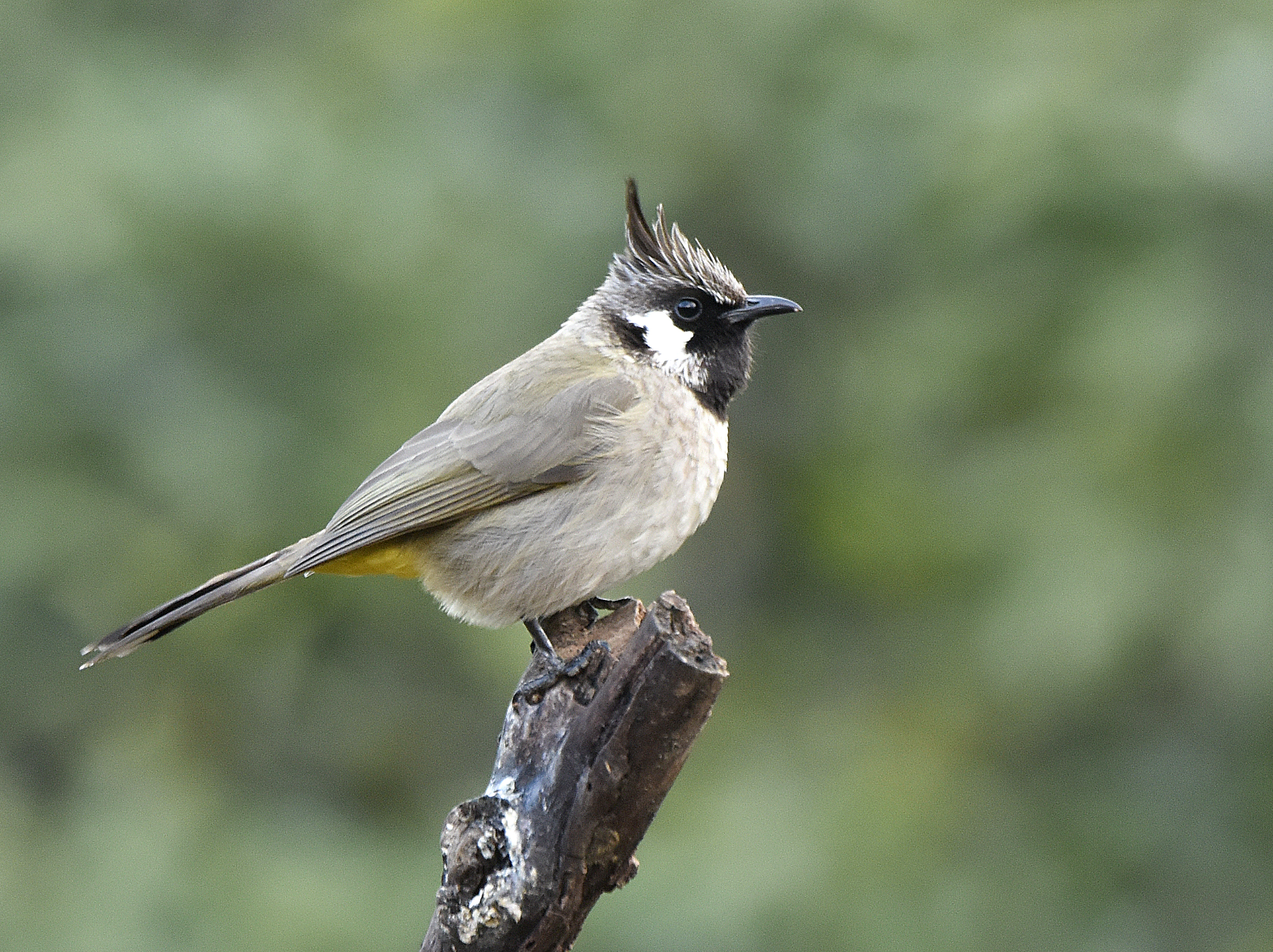 Ghatgarh, Nainital, Uttarakhand, India